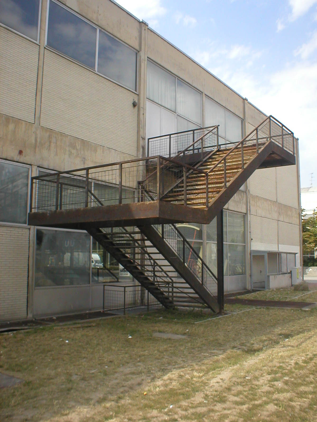 Building at the Bockenheim Campus, Frankfurt University designed by Ferdinand Kramer